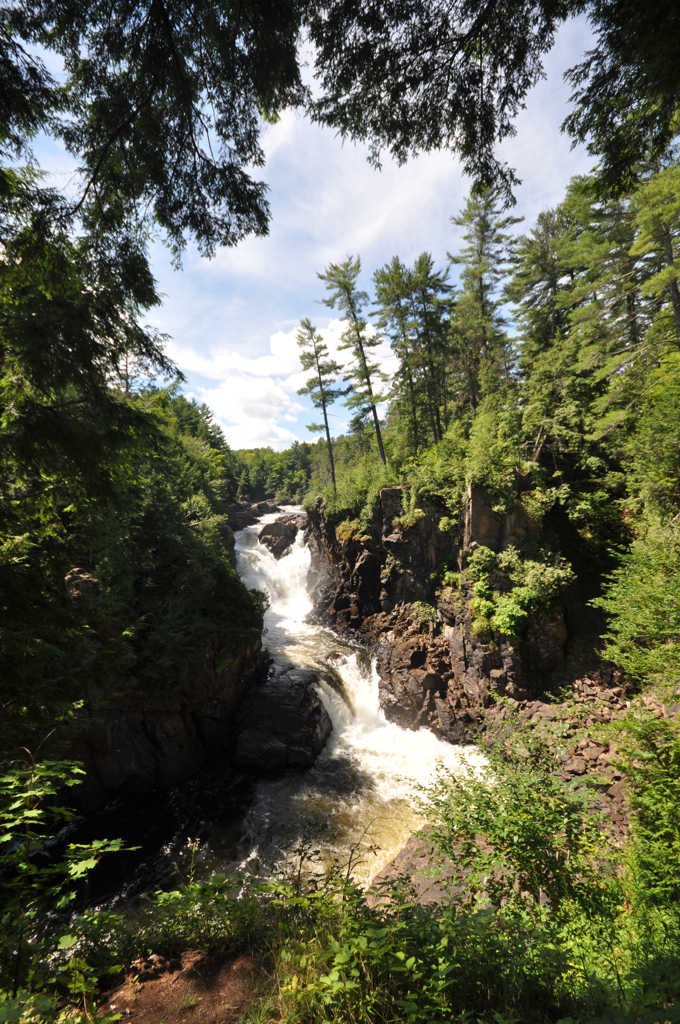 Dorwin waterfall in Darwin, QC, Canada